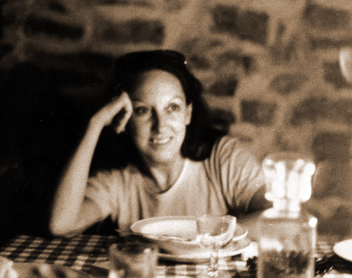 Carla Lonzi